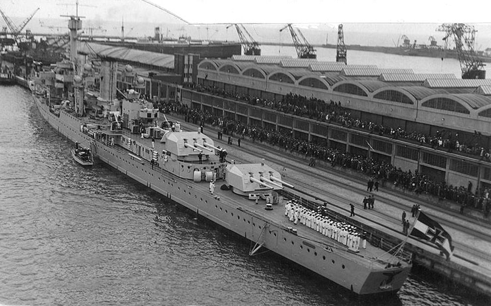 German Light Cruiser Königsberg in polish harbor Gdynia